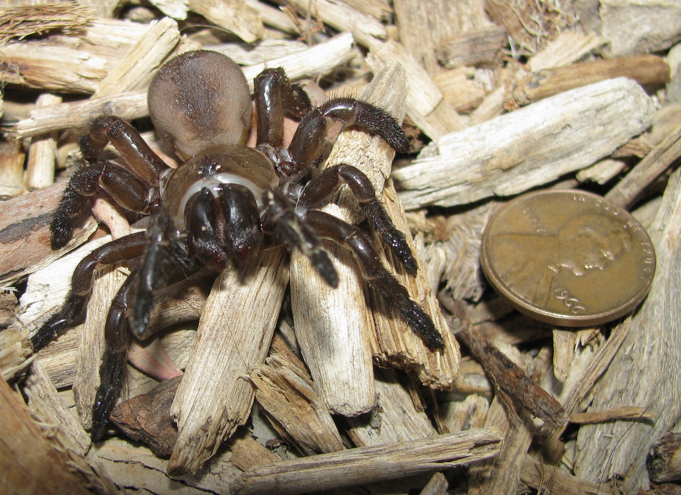 Bothriocyrtum californicum Comments on ID: The ID was based on information from this site, The image was taken in Fullerton, California, USA